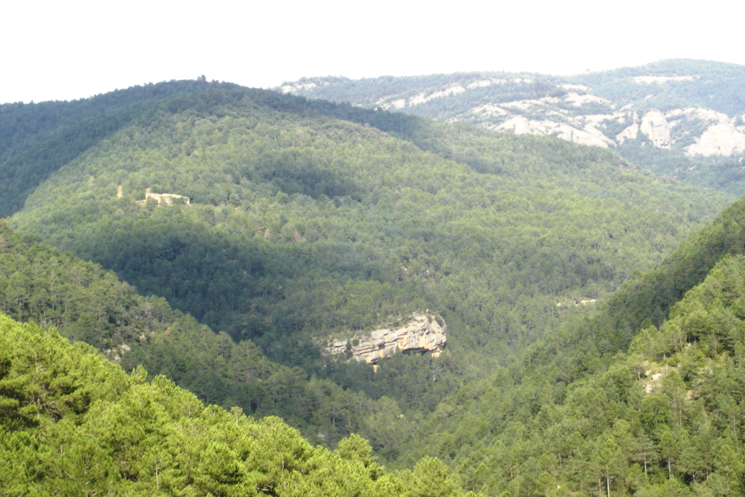 La masia de Soldevila a l'extrem SW de la serra de Canalda la carena de la qual es pot veure darrera de la casa. A la part meitat dreta de la imatge, la vall de la riera de Canalda (el vessant esquerre pertanyent al municipi d'Odèn i el dret al municipi de Lladur. Al fonsm meitat roca meitat bosc, el serrat del Prat d'Estaques.